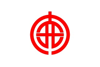 Flag of Kaisei Kanagawa